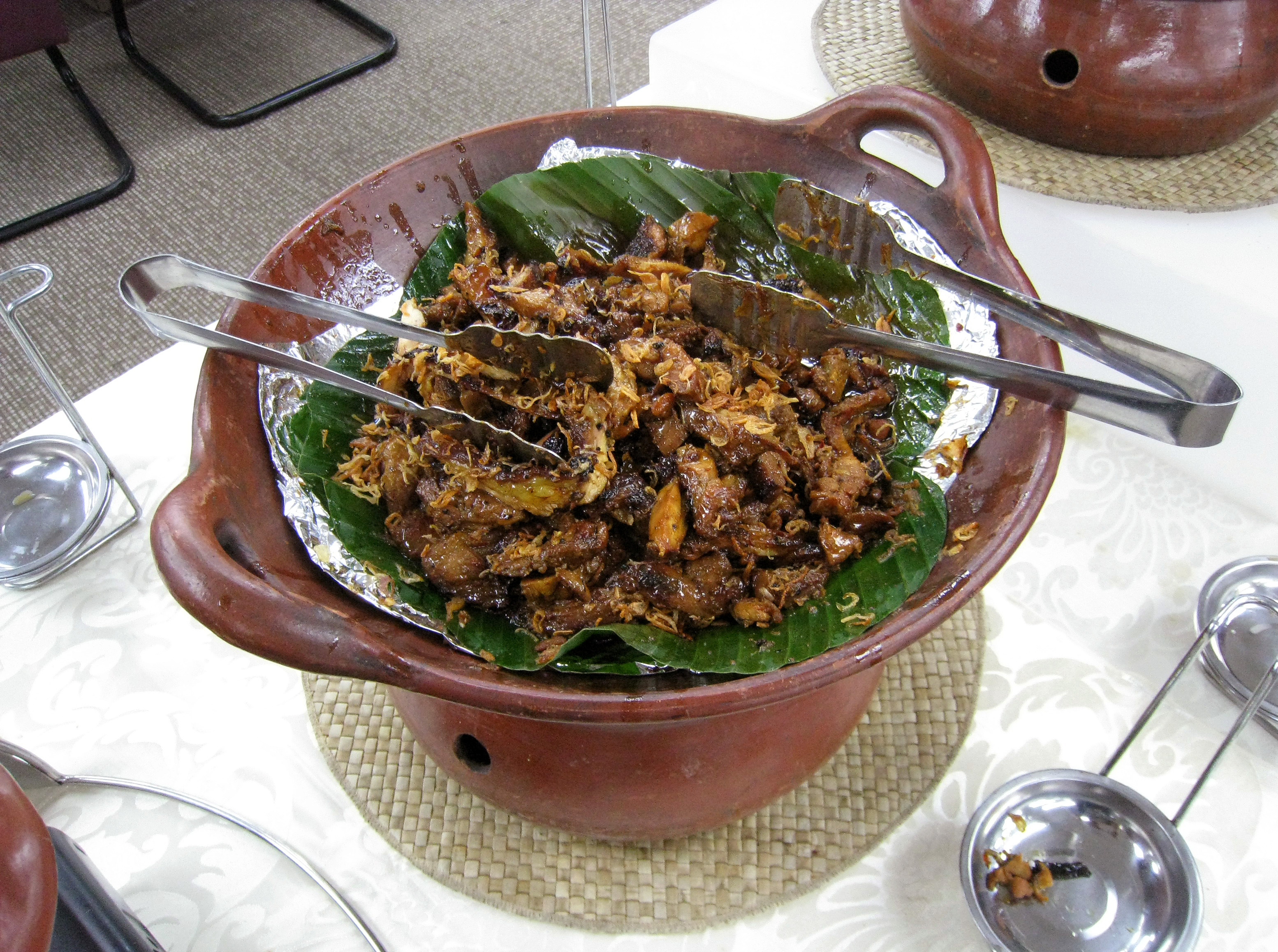 Ayam Kecap panggang, Indonesian grilled chicken in sweet soy sauce, sprinkled with fried shallot. Typical chicken dish commonly served across Indonesia, but more precisely of Javanese-Chinese origin. Served in a prasmanan buffet, Jakarta, Indonesia.